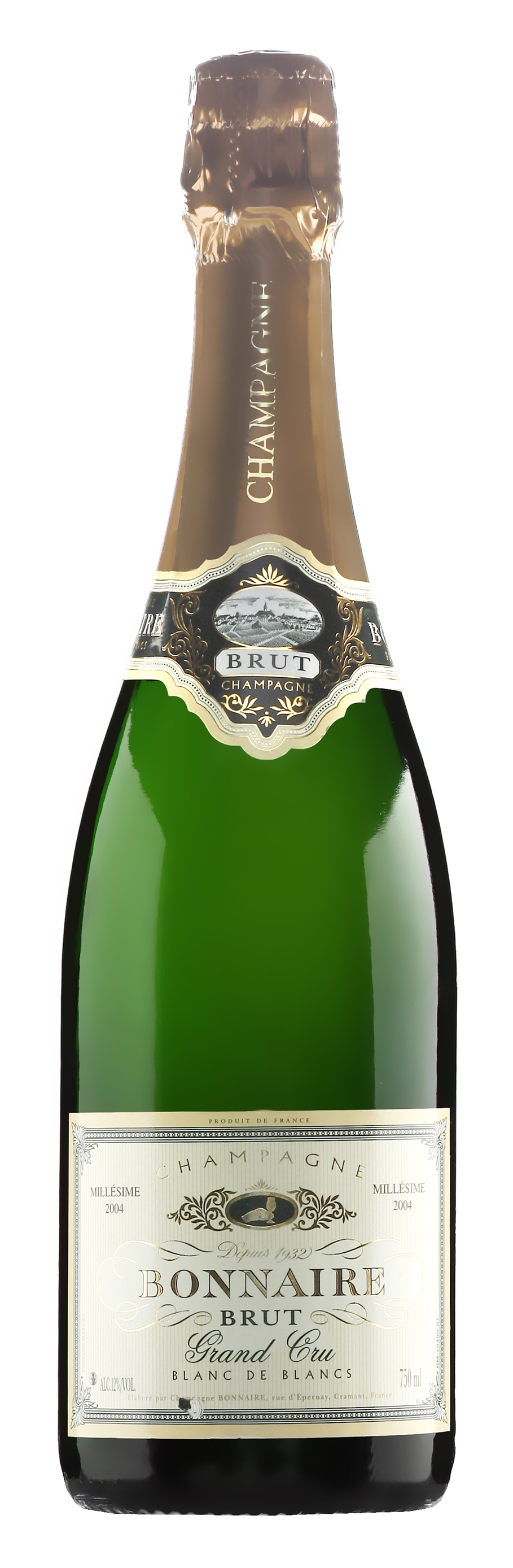 A bottle of champagne - Bonnaire Grand Cru Blanc de Blancs 2004